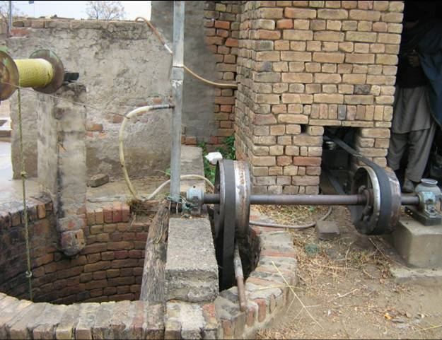 Tube Well